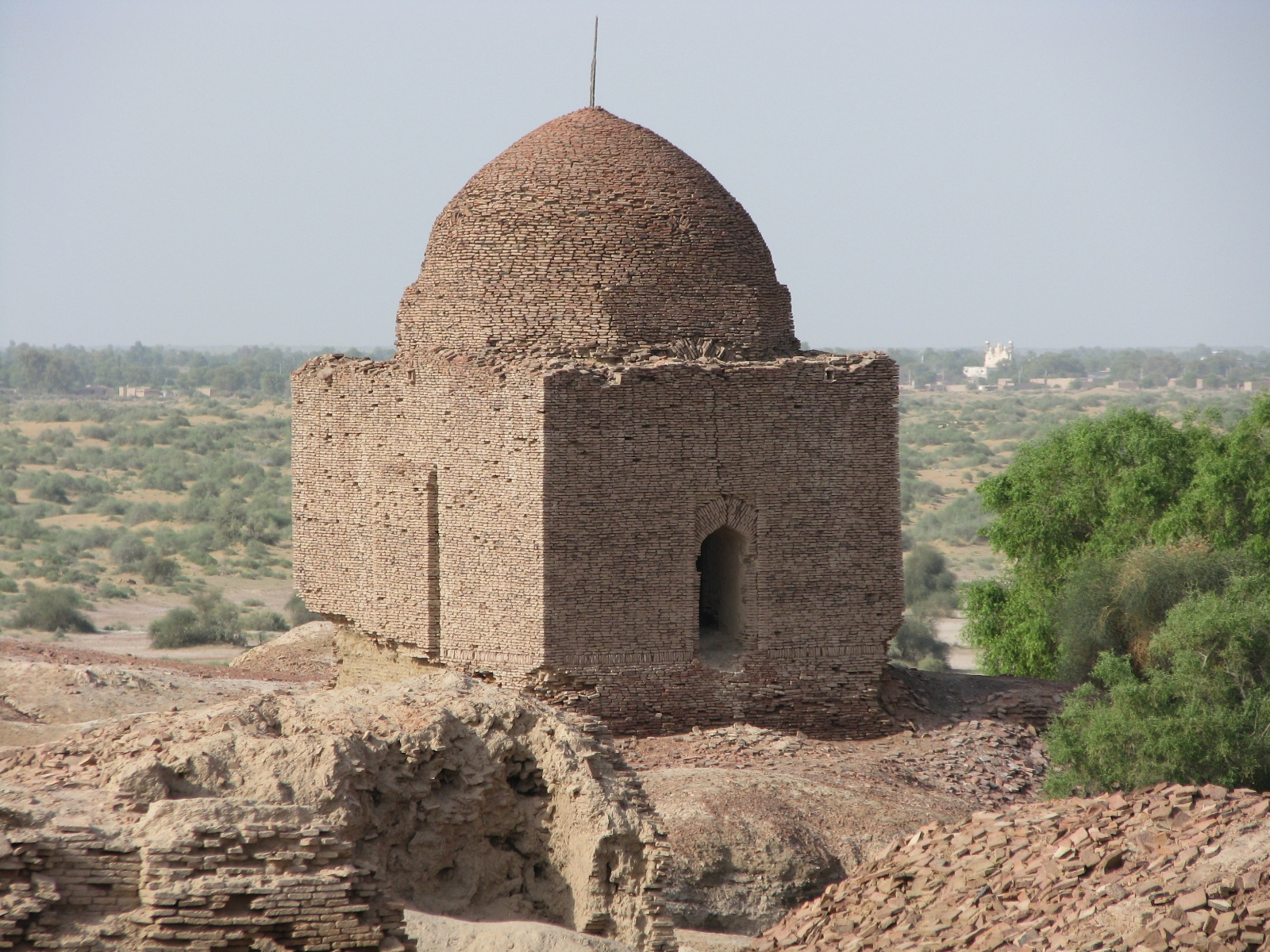 this picture is from fort marot